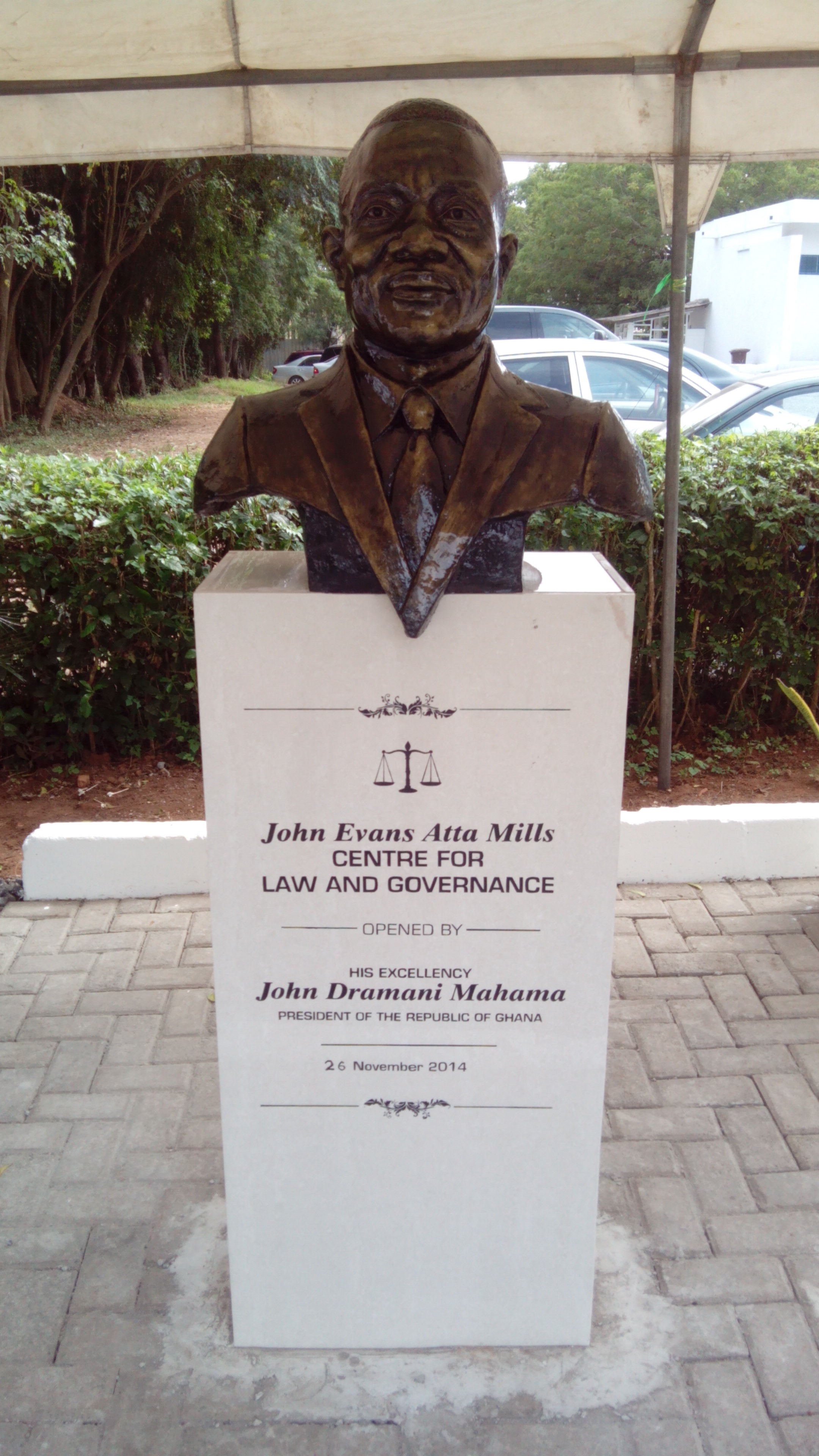 Bust dedicaced to the late president Atta Mills, for the John Evans Atta Mills Centre for Law and Governance, in the Ghana Institute of Management and Public Administration (GIMPA) Accra